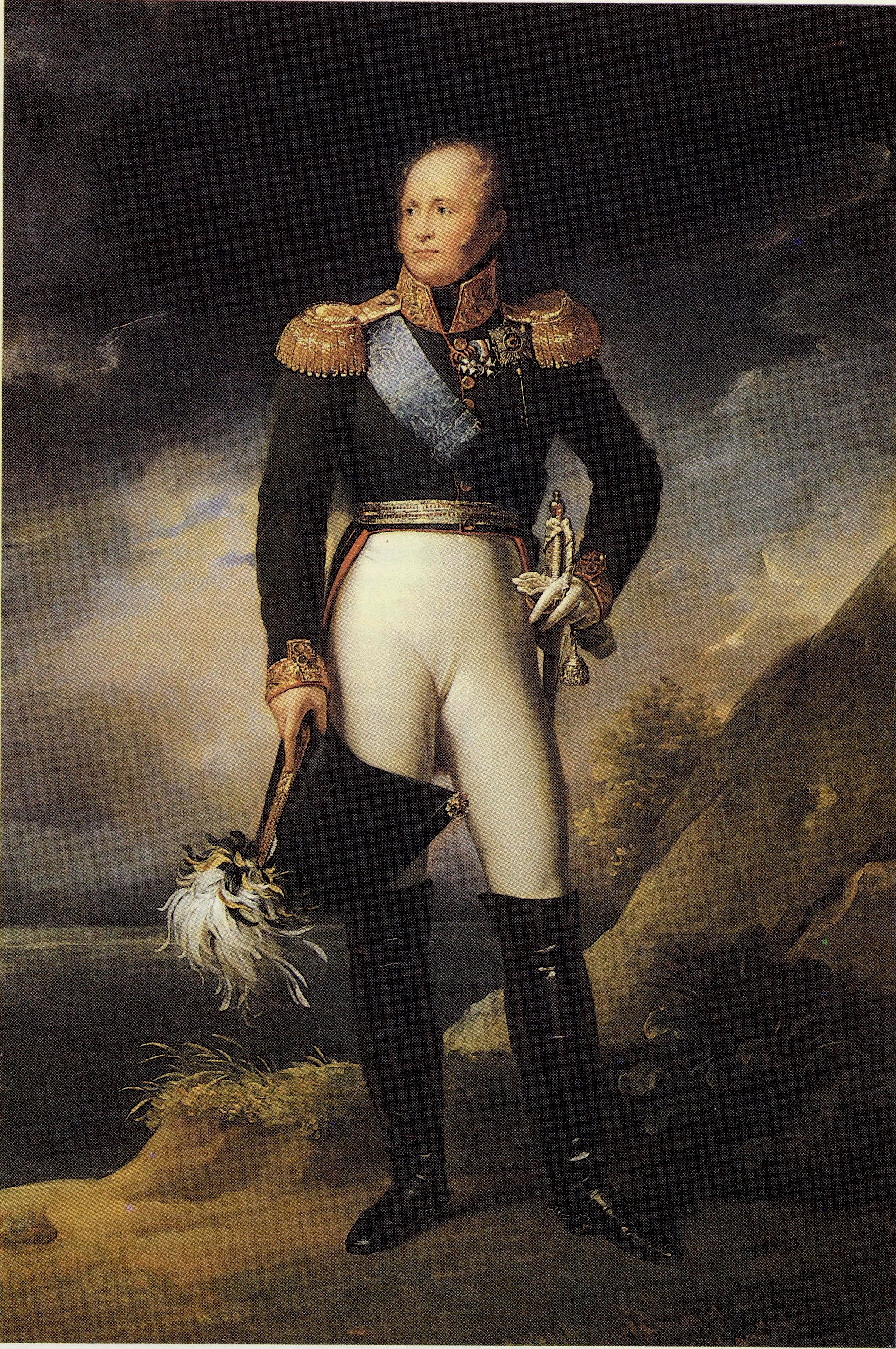 Portrait of Russian emperor Alexander I, bought to the collections of Helsinki University in 1861.